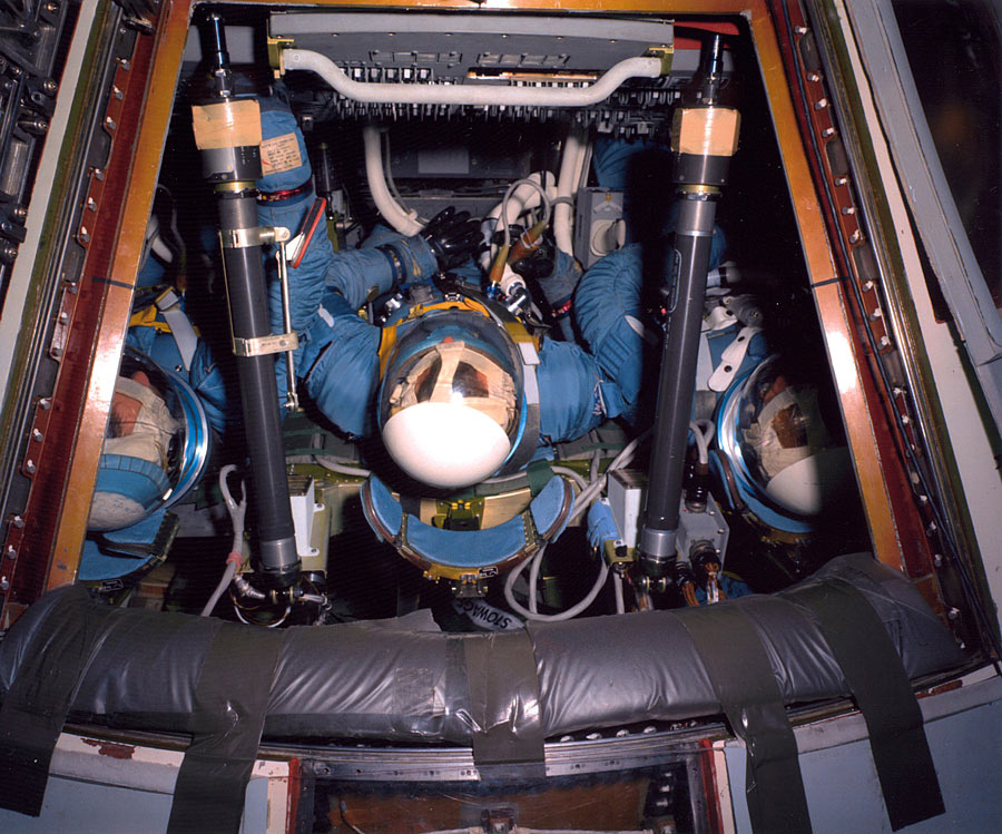 Astronauts James McDivitt, David Scott, and Russell Schweickart undergoing preliminary training in the first Block II Apollo Command Module CM-101, at the North American Aviation plant in Downey, California, for what was originally planned to be the second manned Apollo mission, designated AS-258, testing the Lunar Module (LM) launched into Earth orbit by a second Saturn IB. They are wearing preliminary, blue versions of the Block II Apollo A7L spacesuit. The next day, the crew of the first manned Apollo mission were killed in a cabin fire in their Block I Command Module, CM-012. CM-101 was eventually flown by Walter M. Schirra, Donn F. Eisele and R. Walter Cunningham as Apollo 7. McDivitt's crew eventually flew the LM mission with CM-104 as Apollo 9.